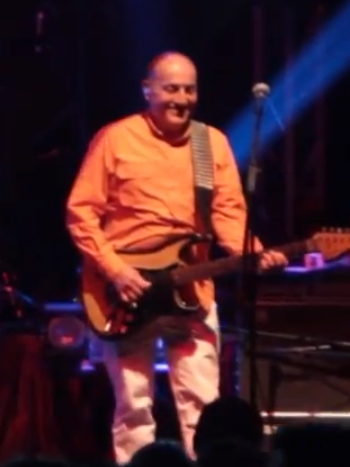 MFÖ at an Ankara concert: From left to right Özkan Uğur, Mazhar Alanson, Fuat Güner